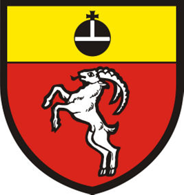 Coat of arms of Saint-Jean in Switzerland (Canton of Valais)